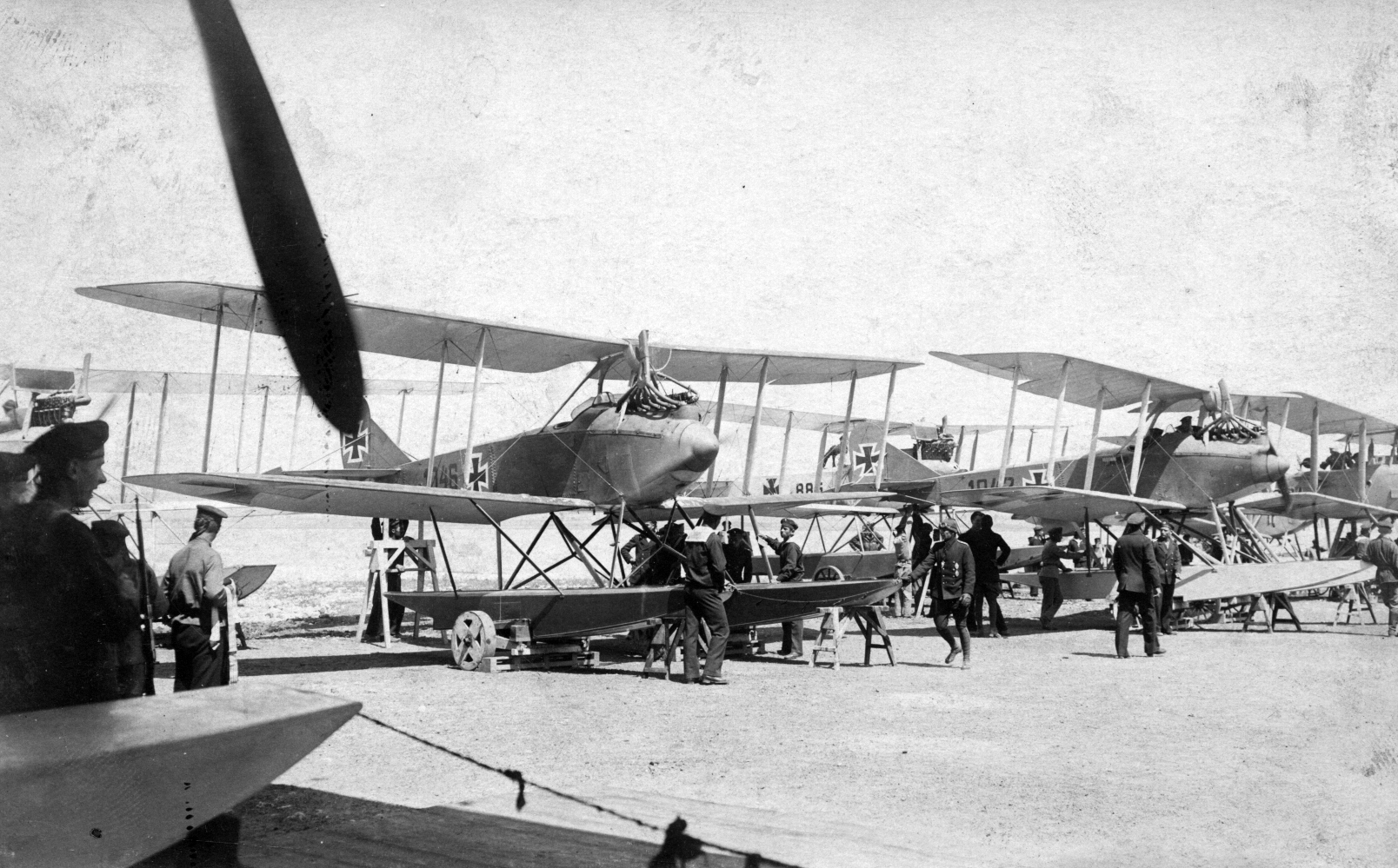 Bulgarian naval fighters Rumpler 6B1 in the Naval Air Station Peynerdjik near Varna